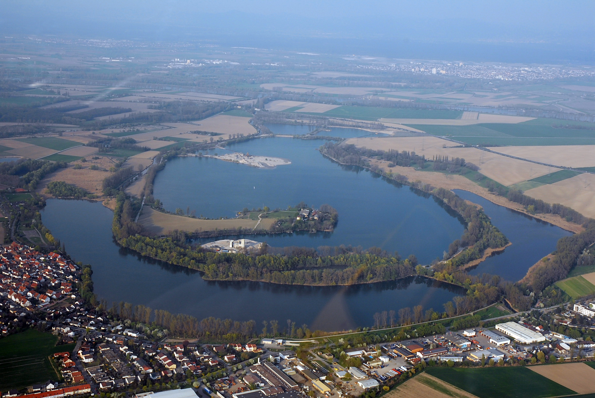 Silbersee Lake of Bobenheim-Roxheim skyview.